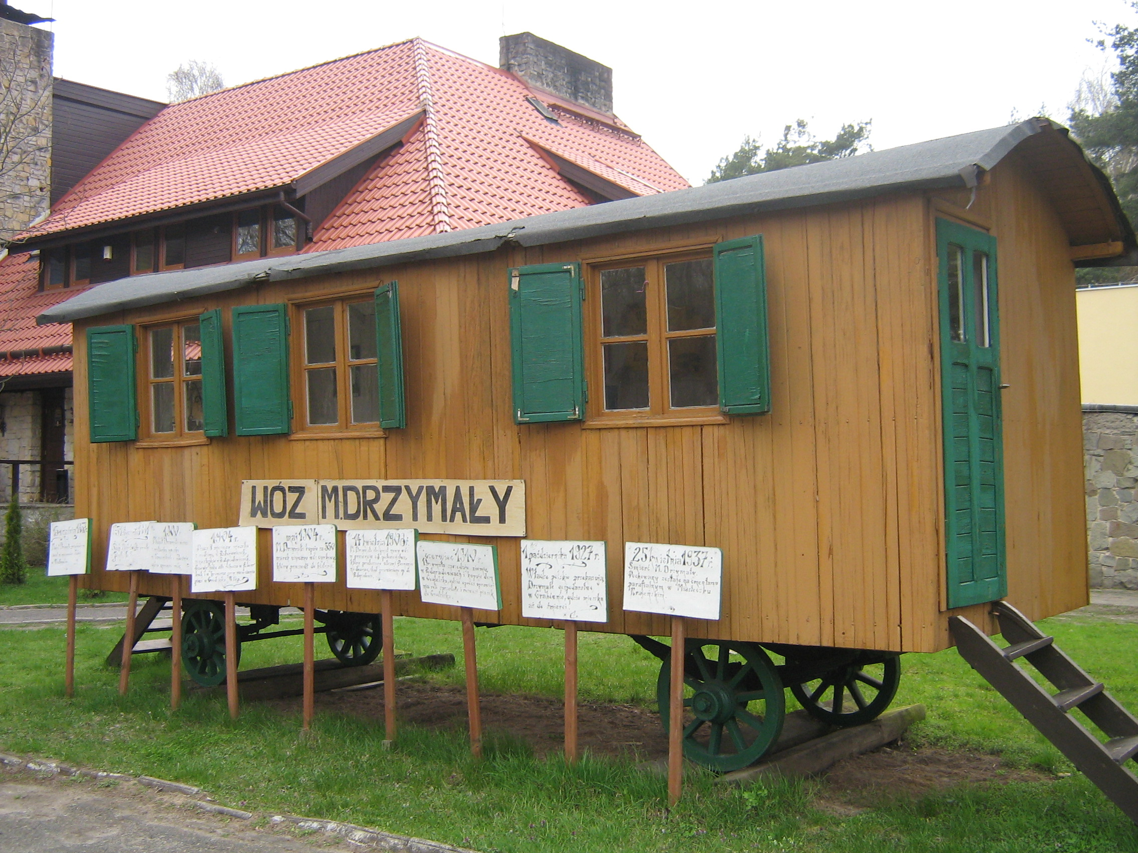 Drzymała's wagon